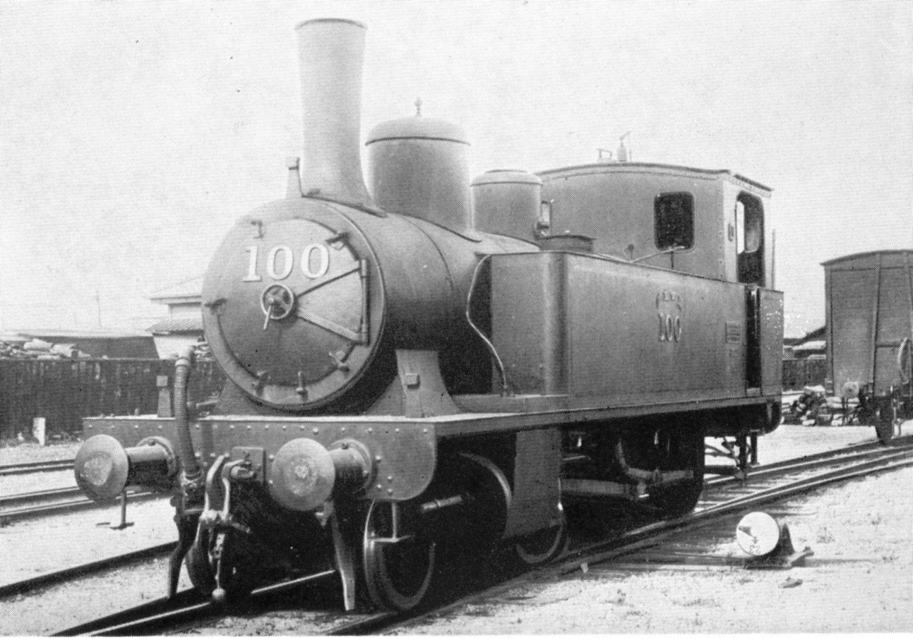 Japan Government Railway type 2800 steam locomotive